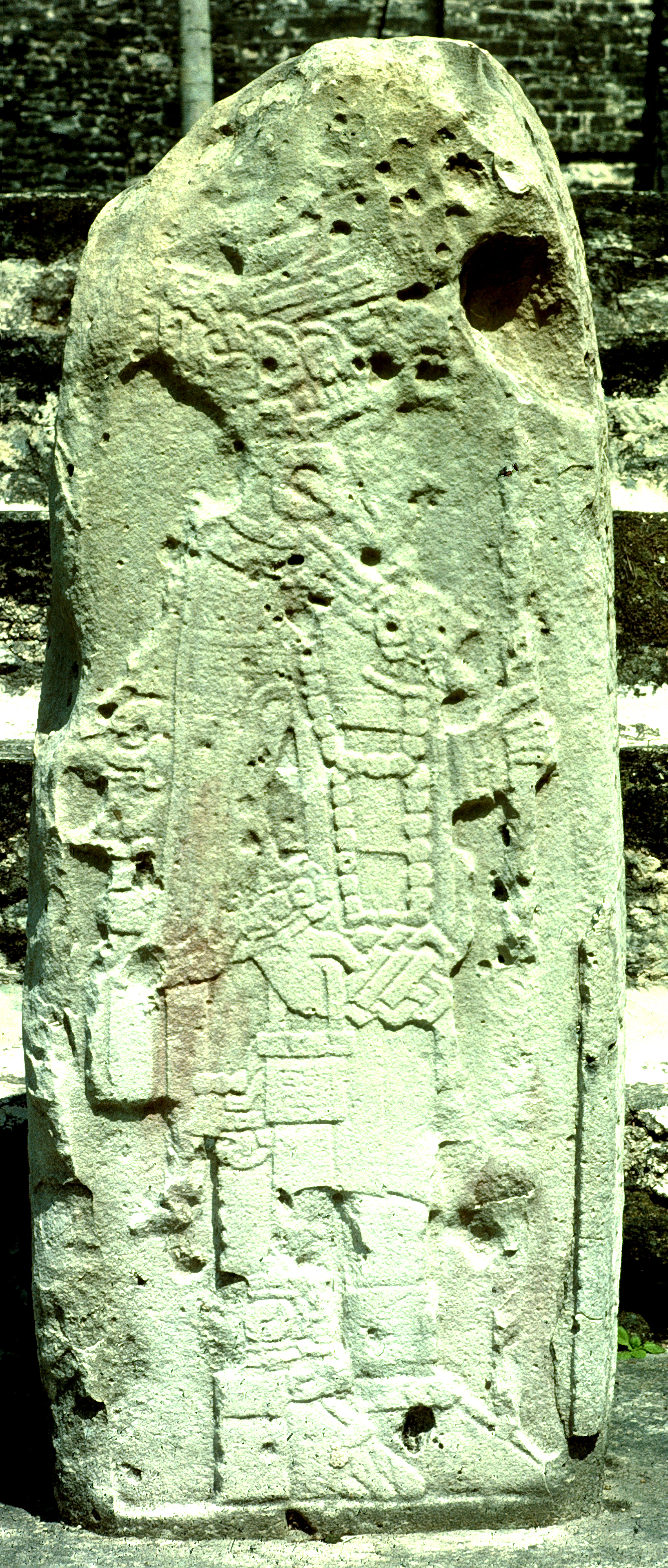 Tikal, Guatemala: Stela 13